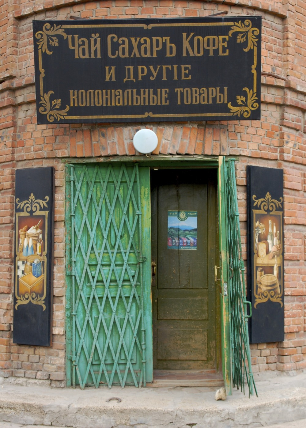 The entrance to the Chekhov Shop museum on Gogol street in Taganrog. The shop’s entry sign reads "Tea, sugar, coffee, and other colonial goods".